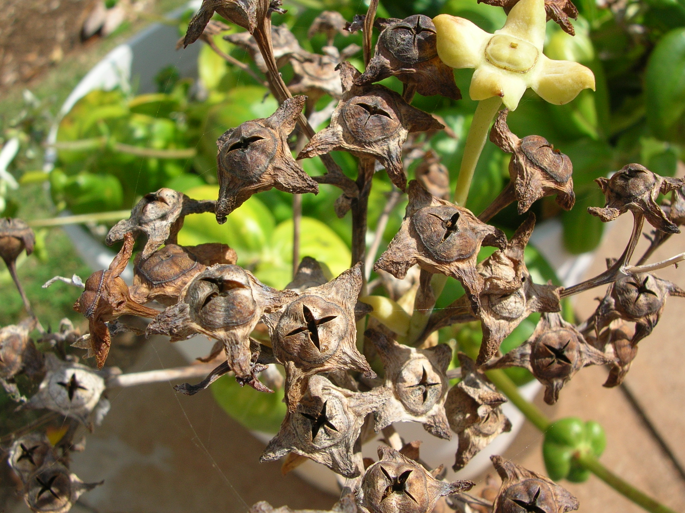 Kadua littoralis (fruit). Location: Maui, Maui Nui Botanical Garden